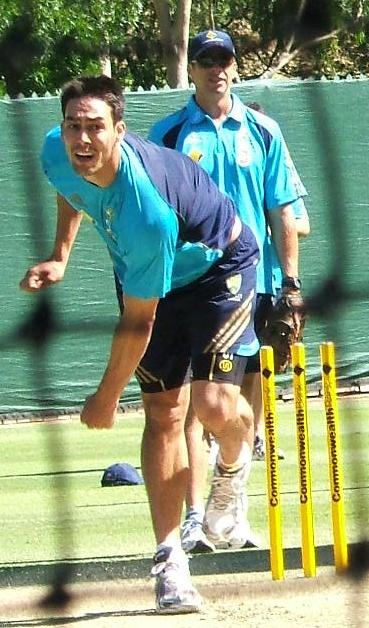 Mitchell Johnson at a training session at the Adelaide Oval